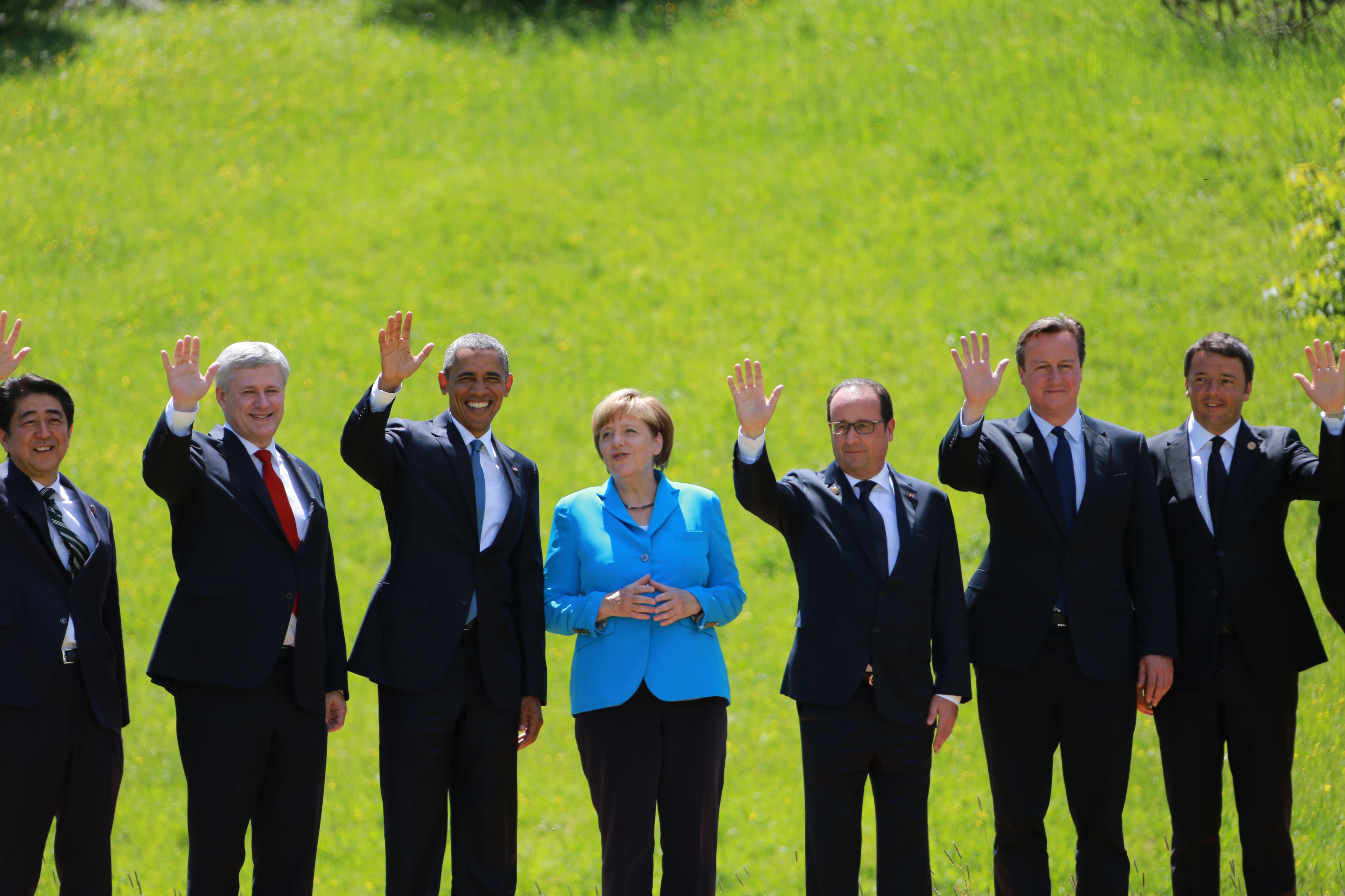 G7 summit in 2015 From Left to Right, Shinzō Abe, Stephen Harper, Barack Obama, Angela Merkel, François Hollande, David Cameron, and Matteo Renzi at the 41st G7 summit in Bavaria, Germany.